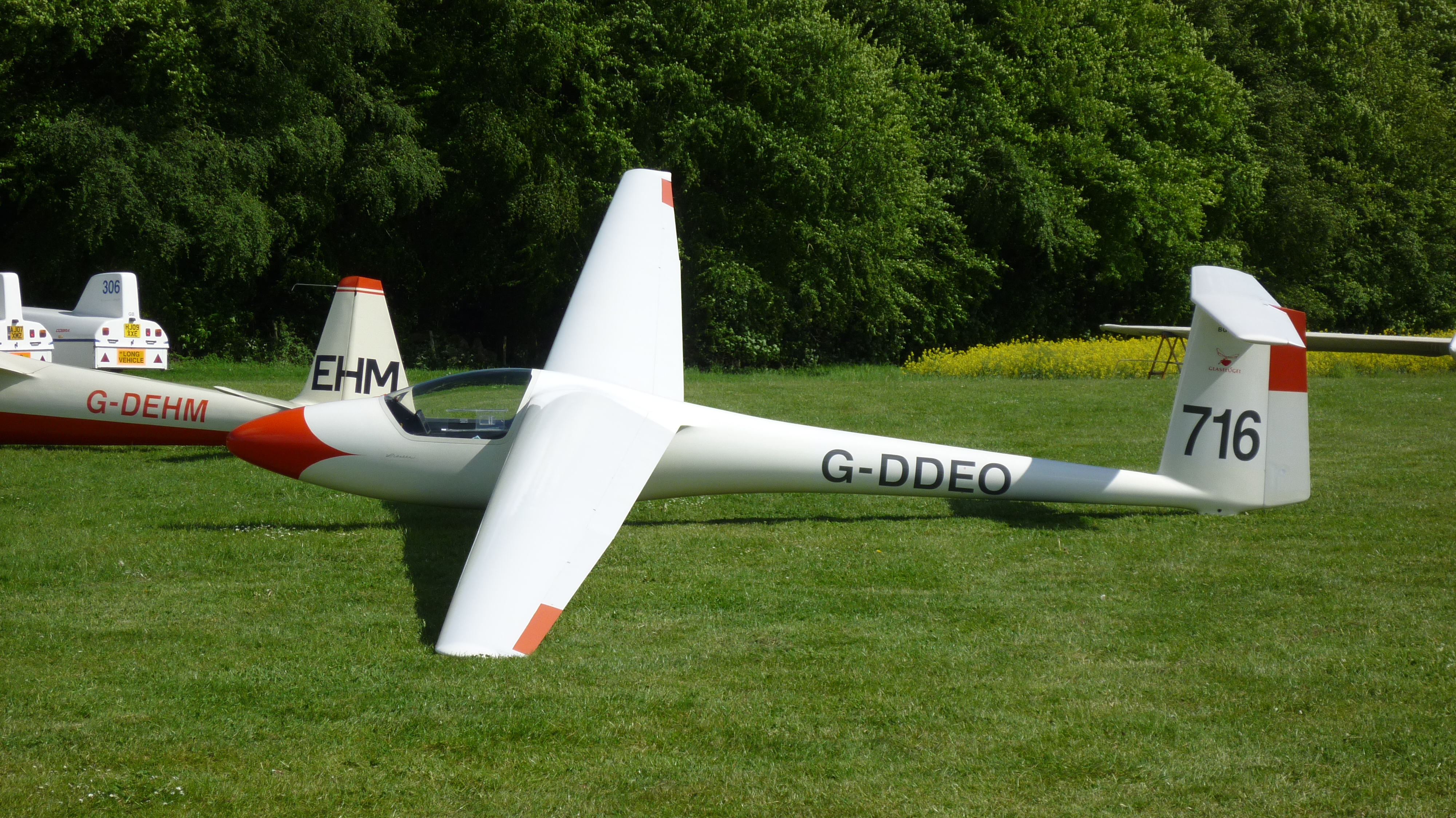 Glasflugel H-205 Club Libelle glider G-DDEO